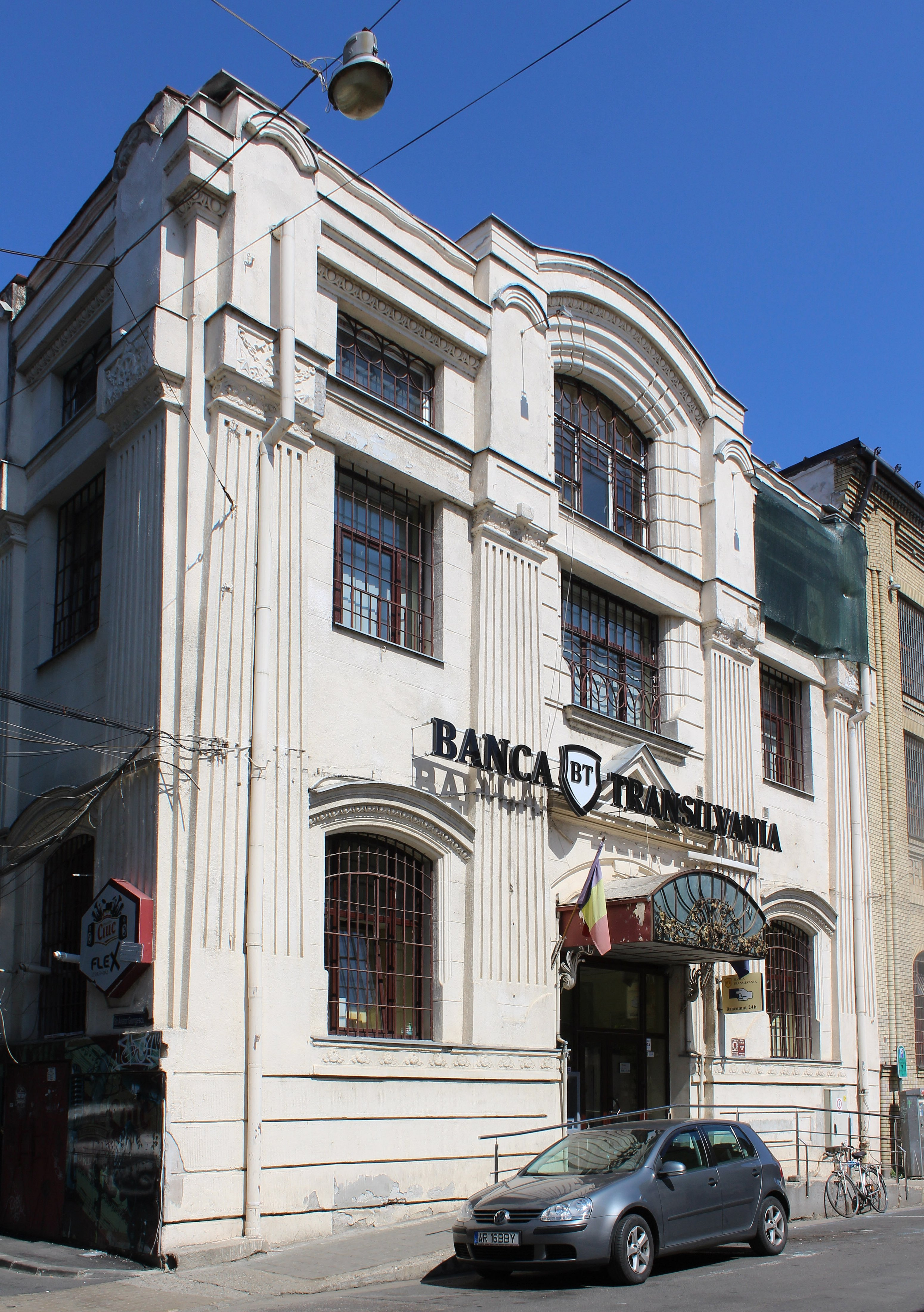 Andrenyi Warehouse, Unirii str. 5, Arad, Romania, built late of 19th century